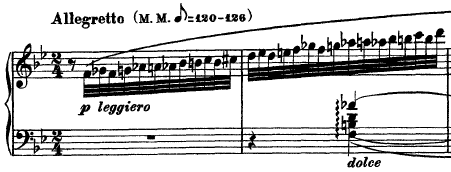 Excerpt from Liszt's Transcendental Etude 5 "Feux Follets"